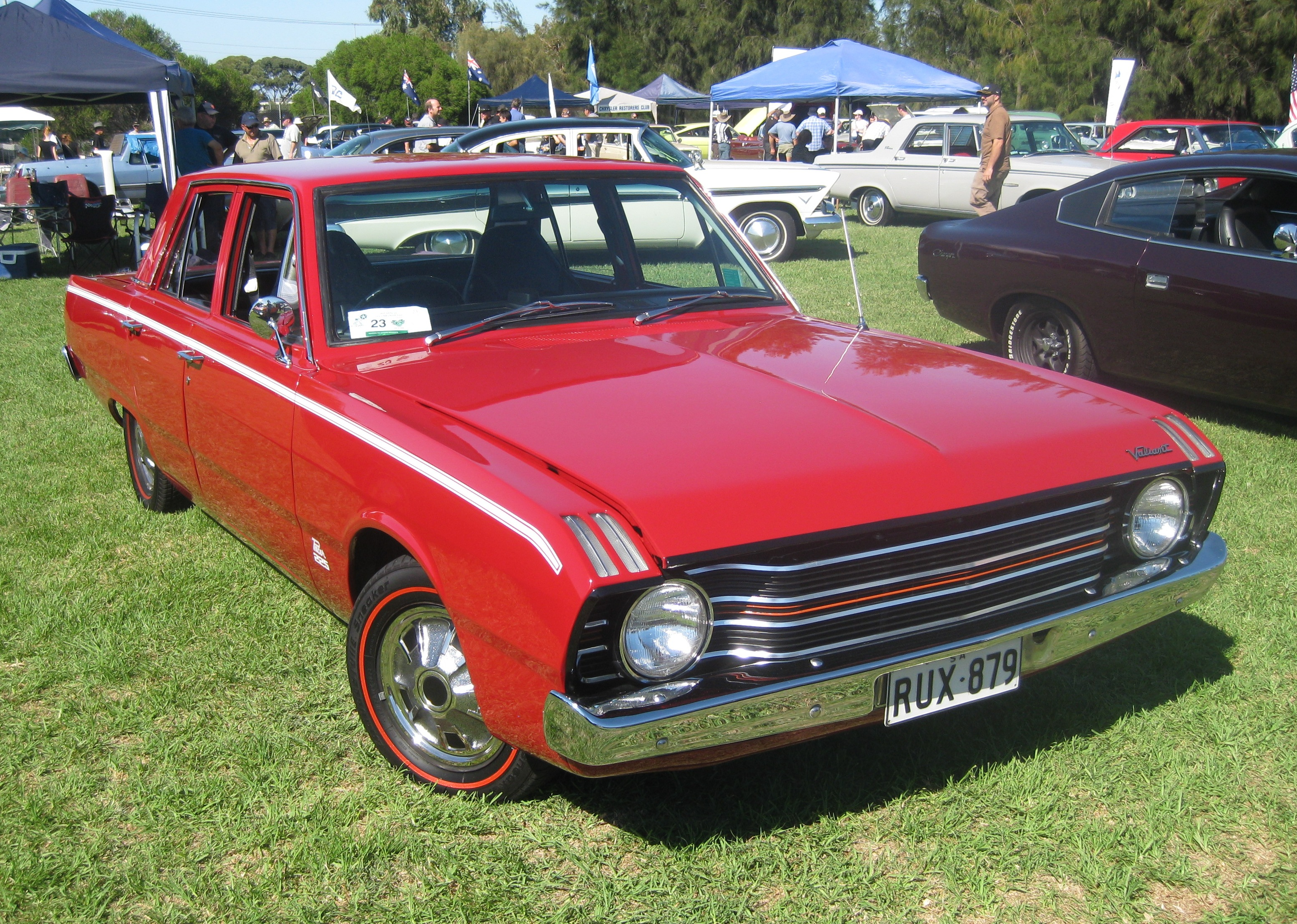 Chrysler Valiant VF Pacer (1969-1970)